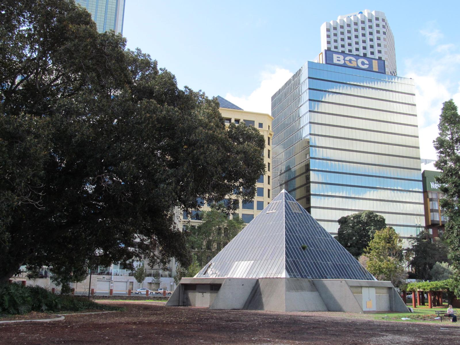 West end of the Esplanade reserve, featuring the Allan Green Conservatory.